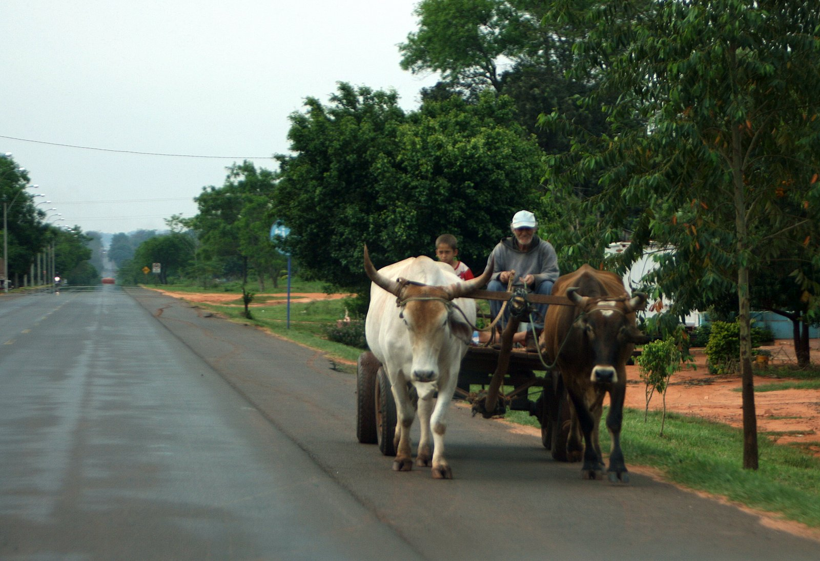 Ox cart on the side of Route 3 in San Pedro Department.